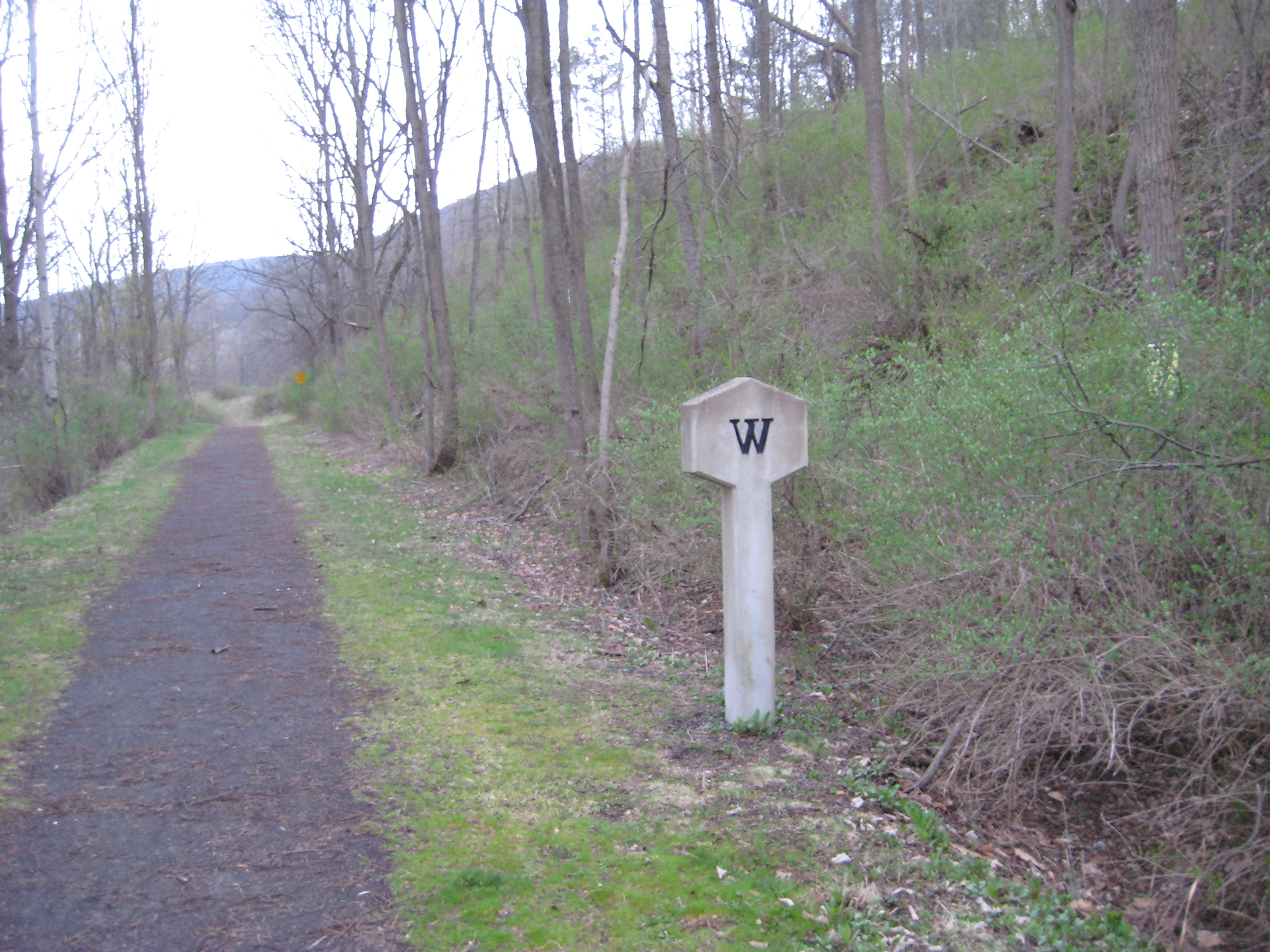 Perhaps this whistlepost is a little too wide? Look at the back.